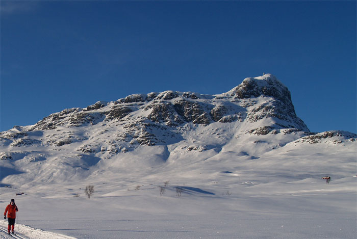 I took the photo myself in February 2006, from a skitrack close to Beitostølen, Norway.